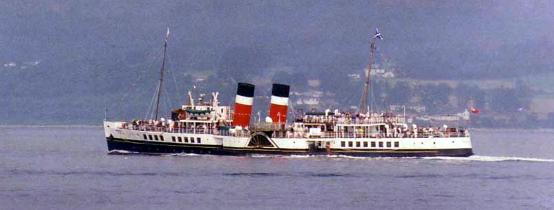 View from Greenock, Scotland, of the PS Waverley cruising down the Firth of Clyde.